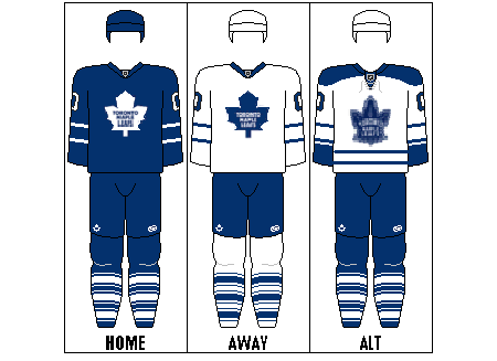 The Leafs Logo.